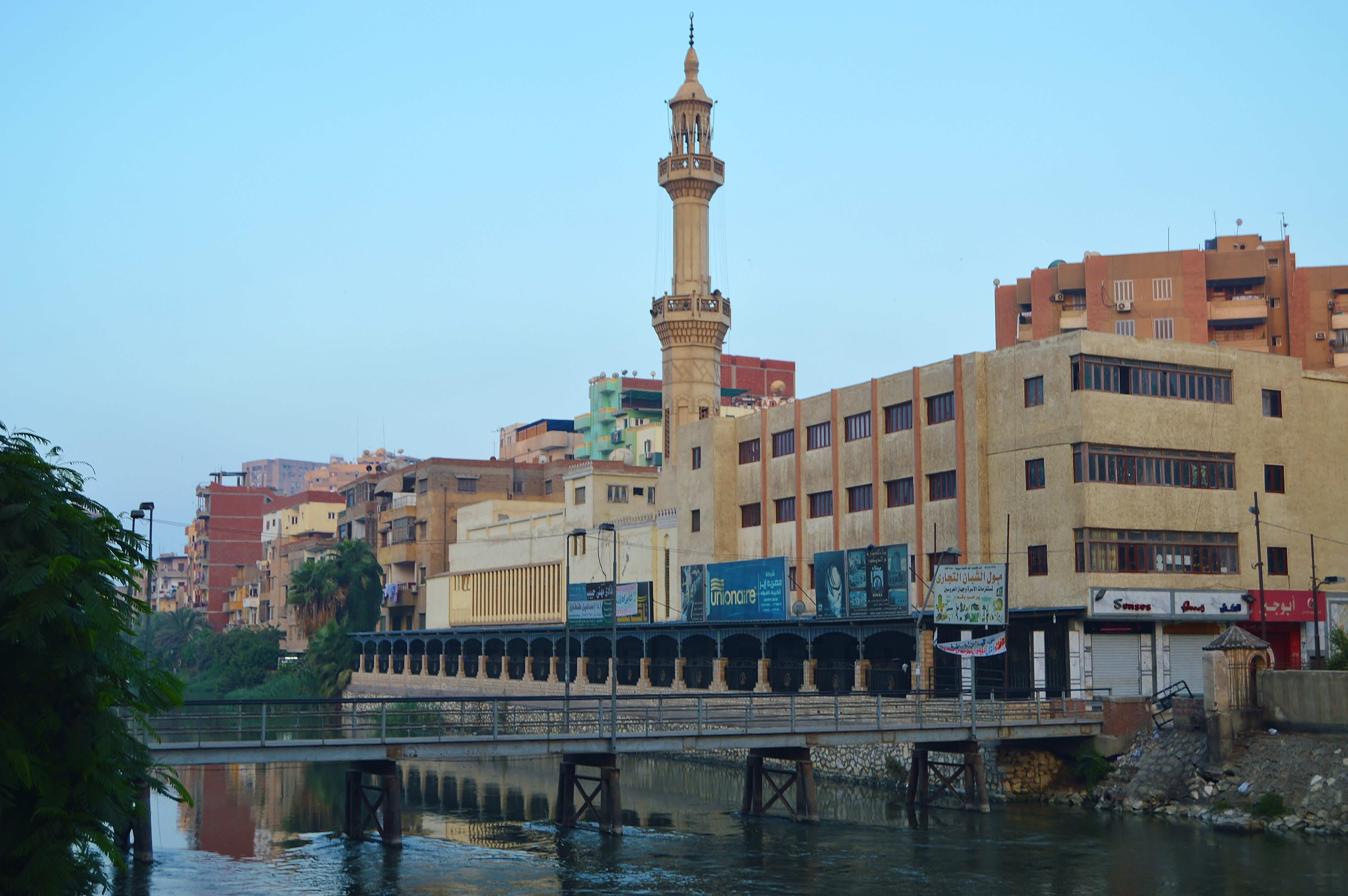 Zagazig, El-Hariry, Qesm Awal AZ Zagazig, Ash Sharqia Governorate, Egypt